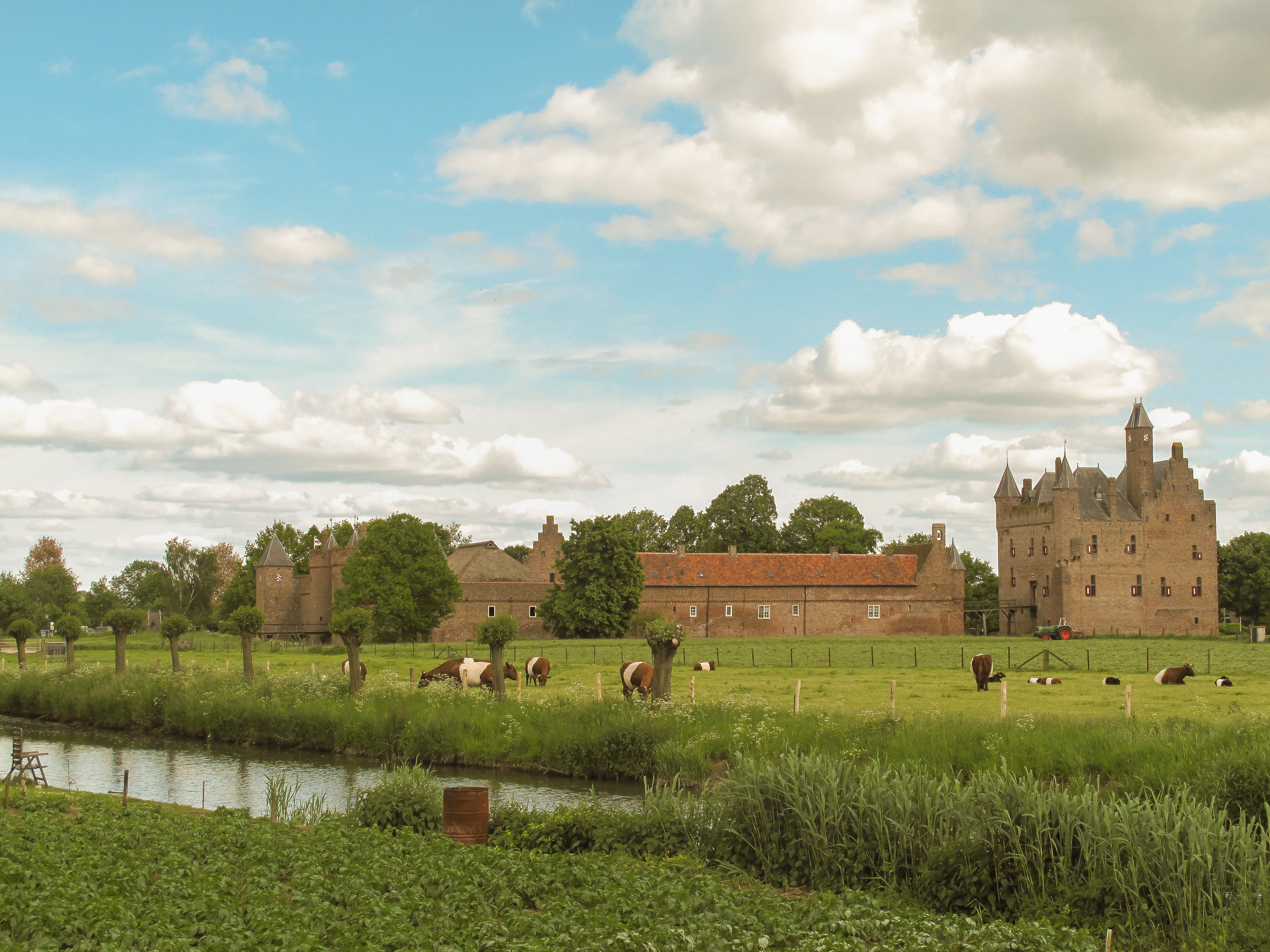 Doornenburg, castle: kasteel Doornenburg